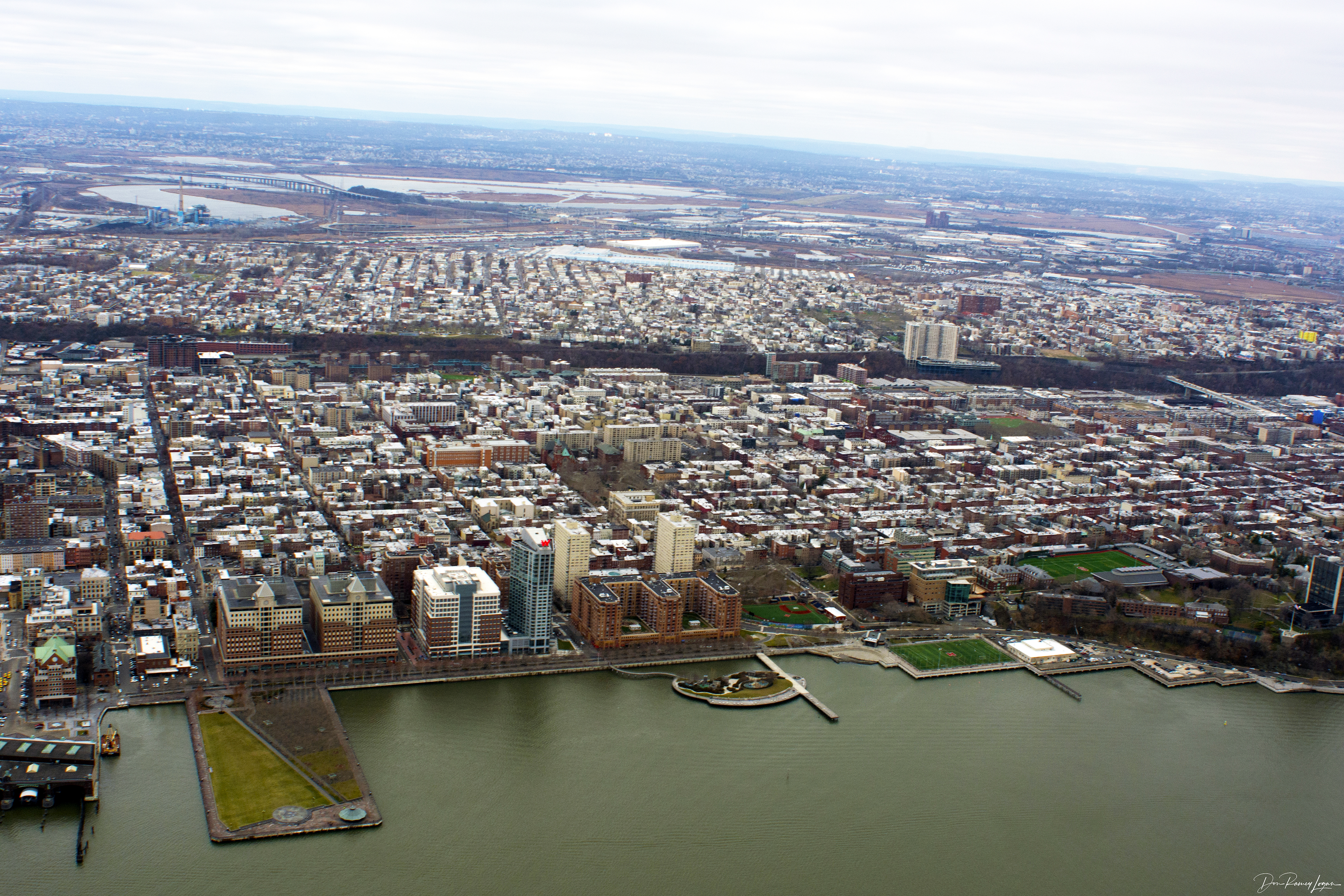 Hoboken NJ photo D Ramey Logan